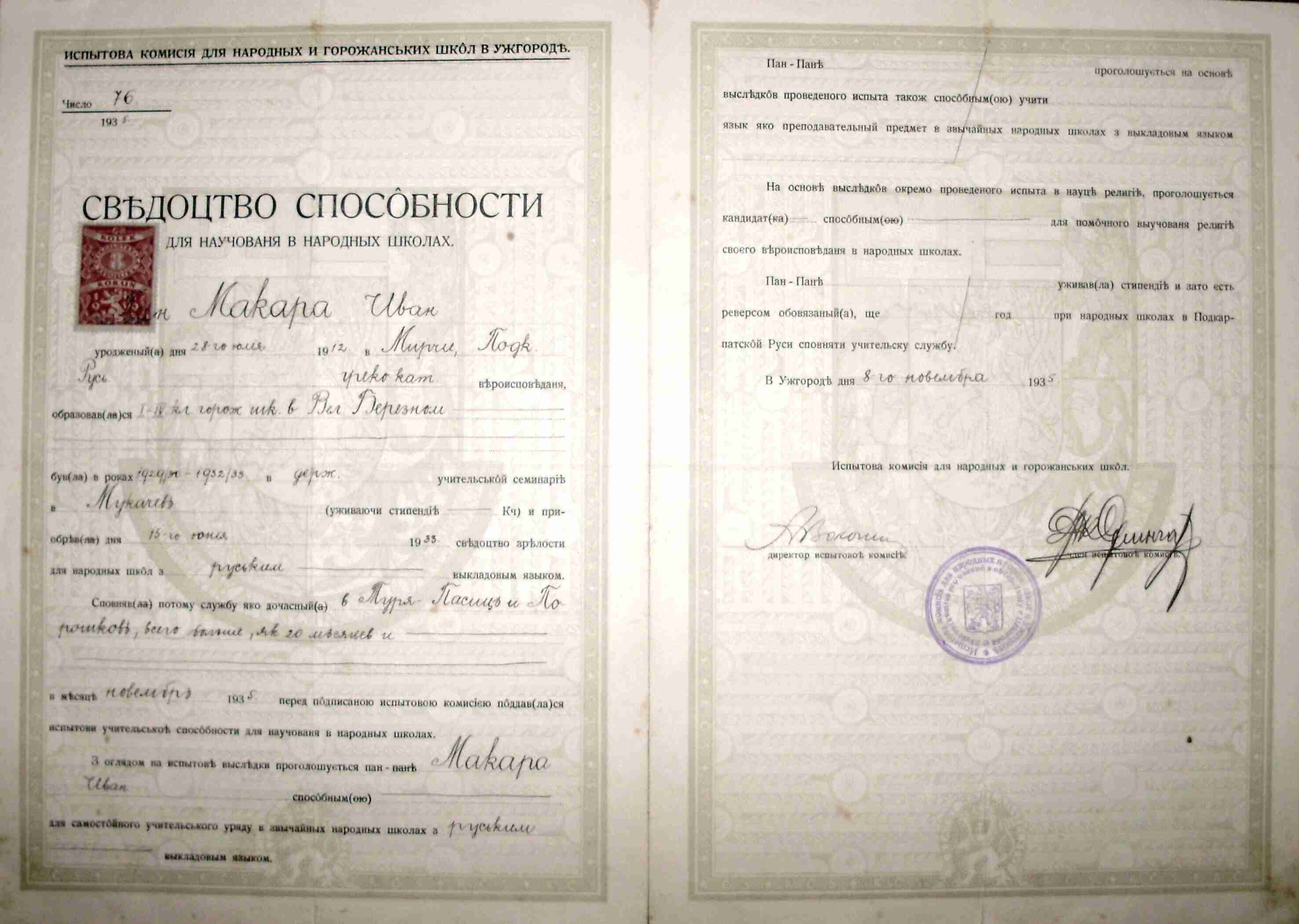 Сertificate for teaching in elementary school. Subcarpathian Rus 1935